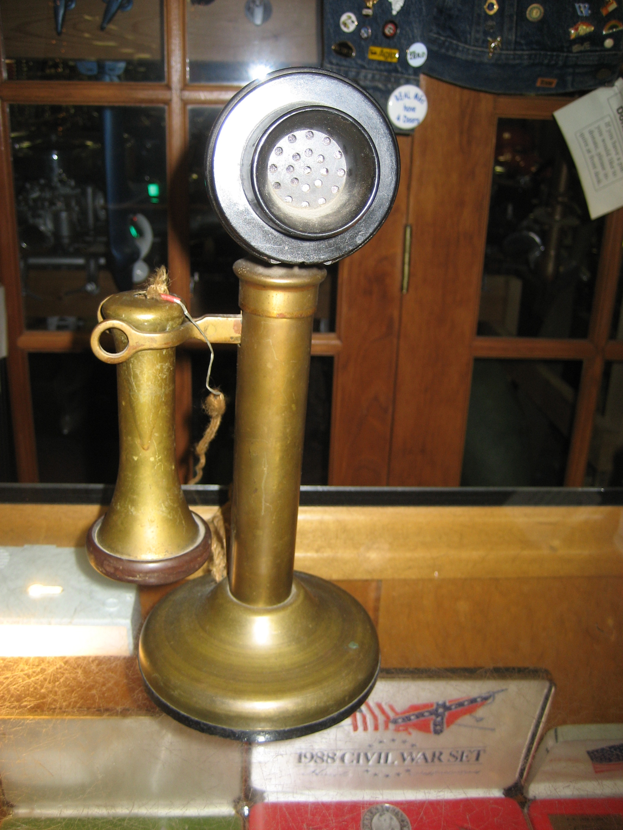 Old telephone at Tallahassee Auto Museum.